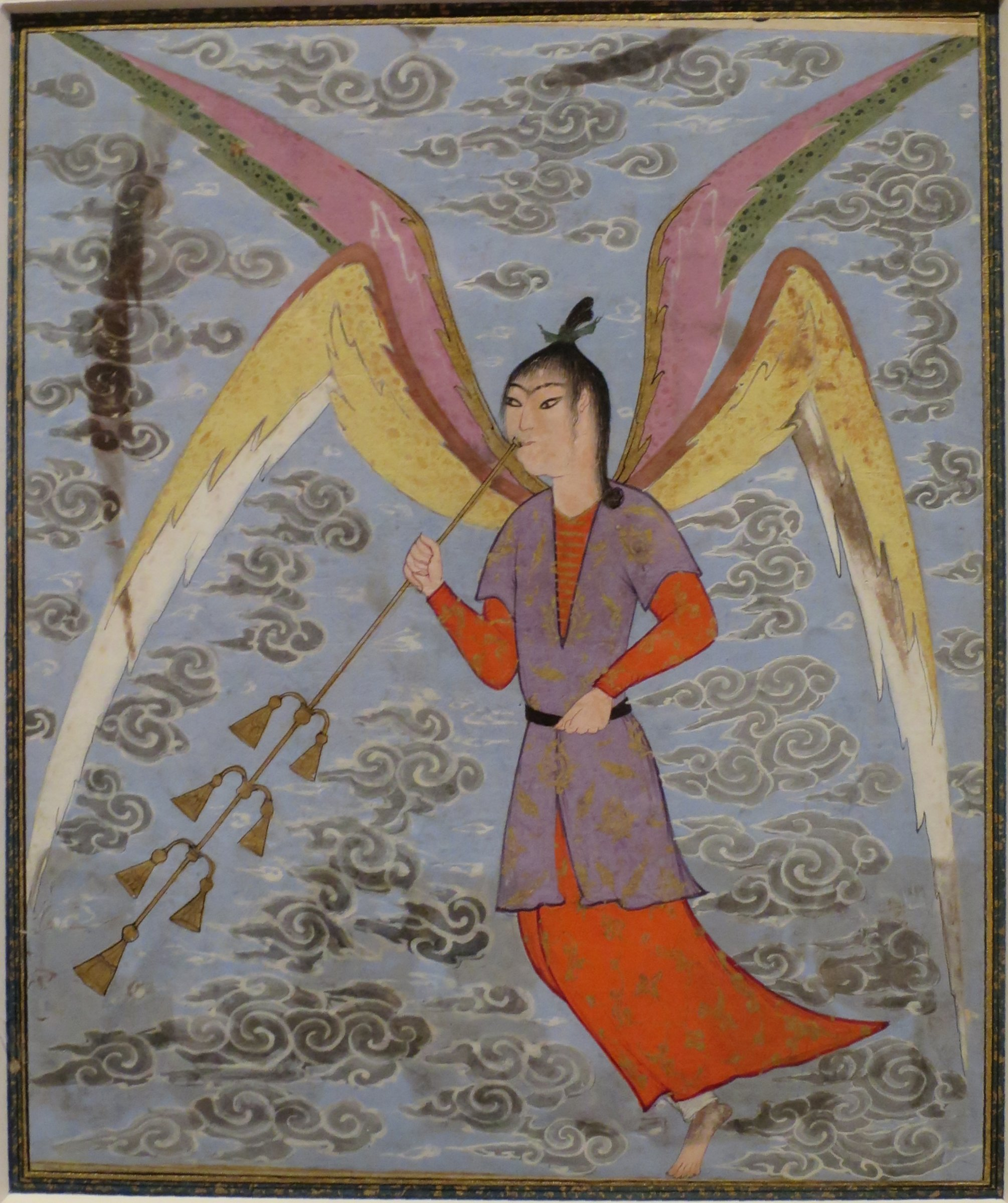 Angel Blowing a Woodwind, ink and opaque watercolor painting from Iran, c. 1500, Honolulu Museum of Art, accession 4104.1